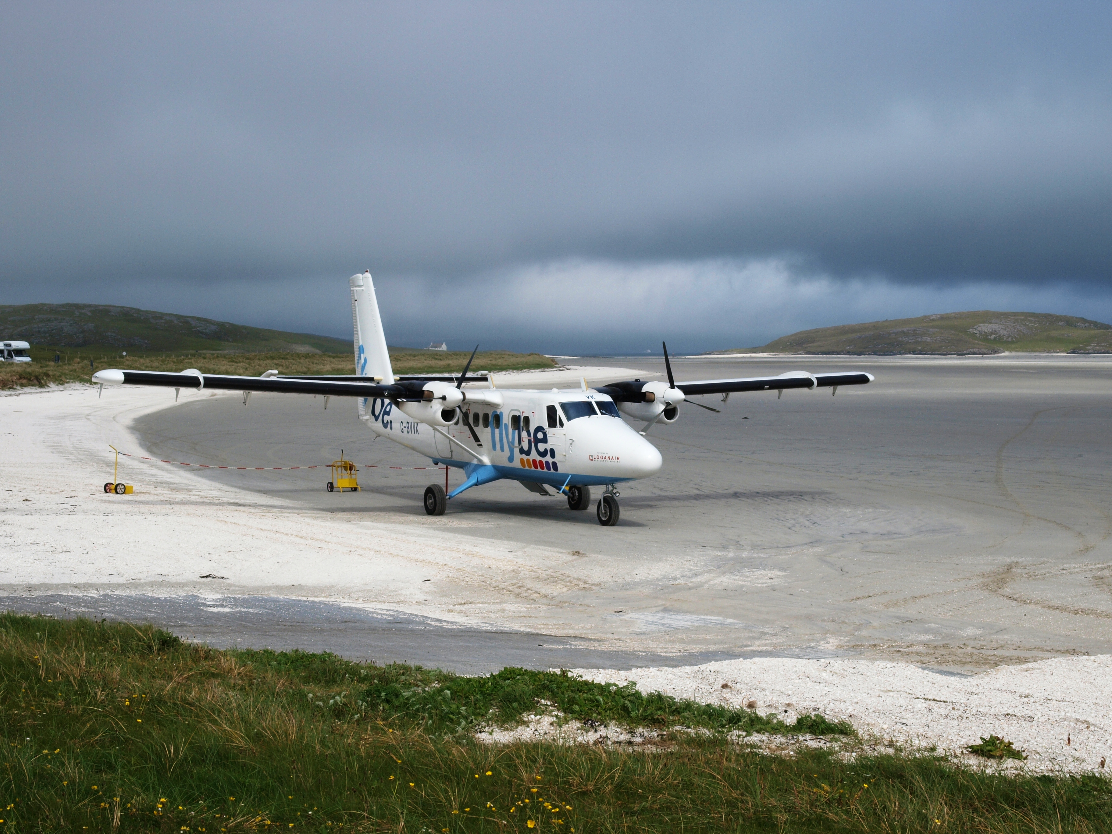 Barra Airport Arrivals. Following the recent arrival, the plane at Barra airport ready to load passengers prior to departure on the beach runway, just in time to meet the rather inclement weather moving over the Island.